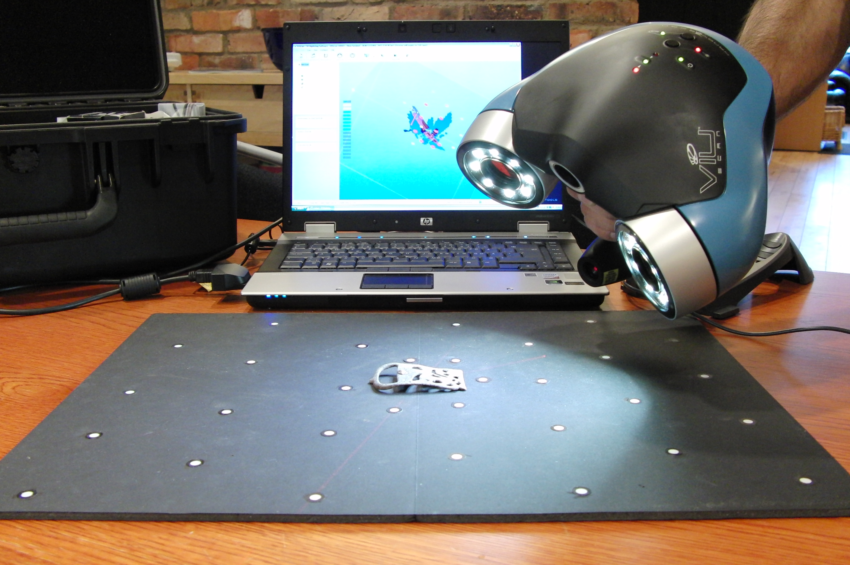 Making a 3D-model of an Viking belt buckle using a hand held VIUscan 3D laser scanner. As the device uses a laser scanner to create a 3D model it also uses a camera to accurately texture map the object. Original Flickr description: This 3D-file is the result of a project in which a 1000-year-old Viking belt buckle was laser scanned and 3D printed to achieve a copy of the unique archaeological artifact. You can read the full article about this project via the URL below. Feel free to share this 3D object and the contents of the article under the Creative Commons Attribution-Share Alike 3.0 Unported license.